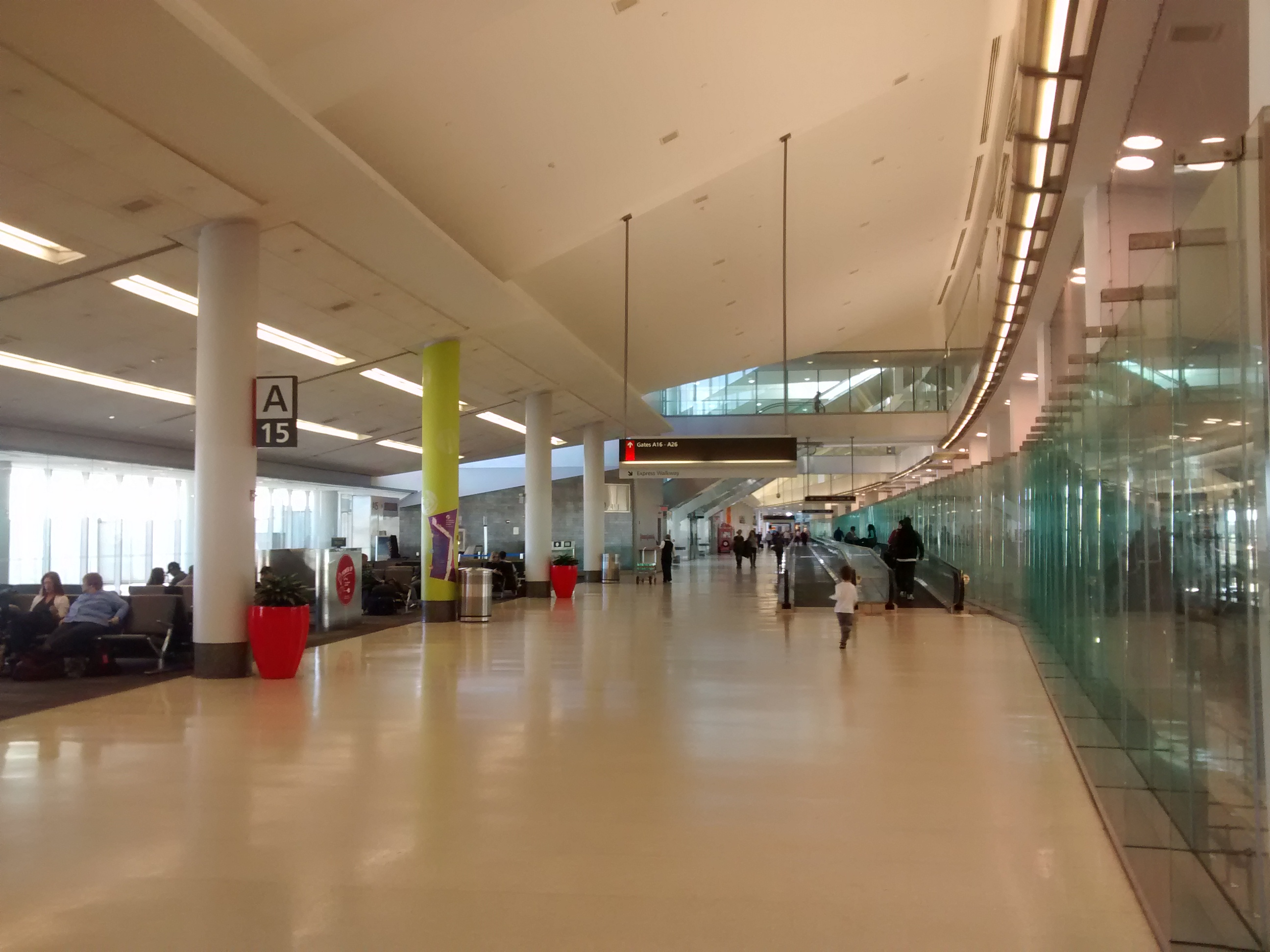 Philadelphia International Airport Terminal A West.